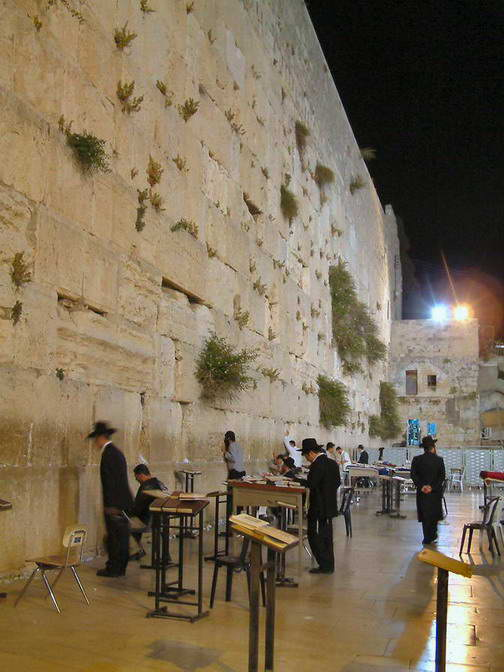 Western Wall of Jerusalem